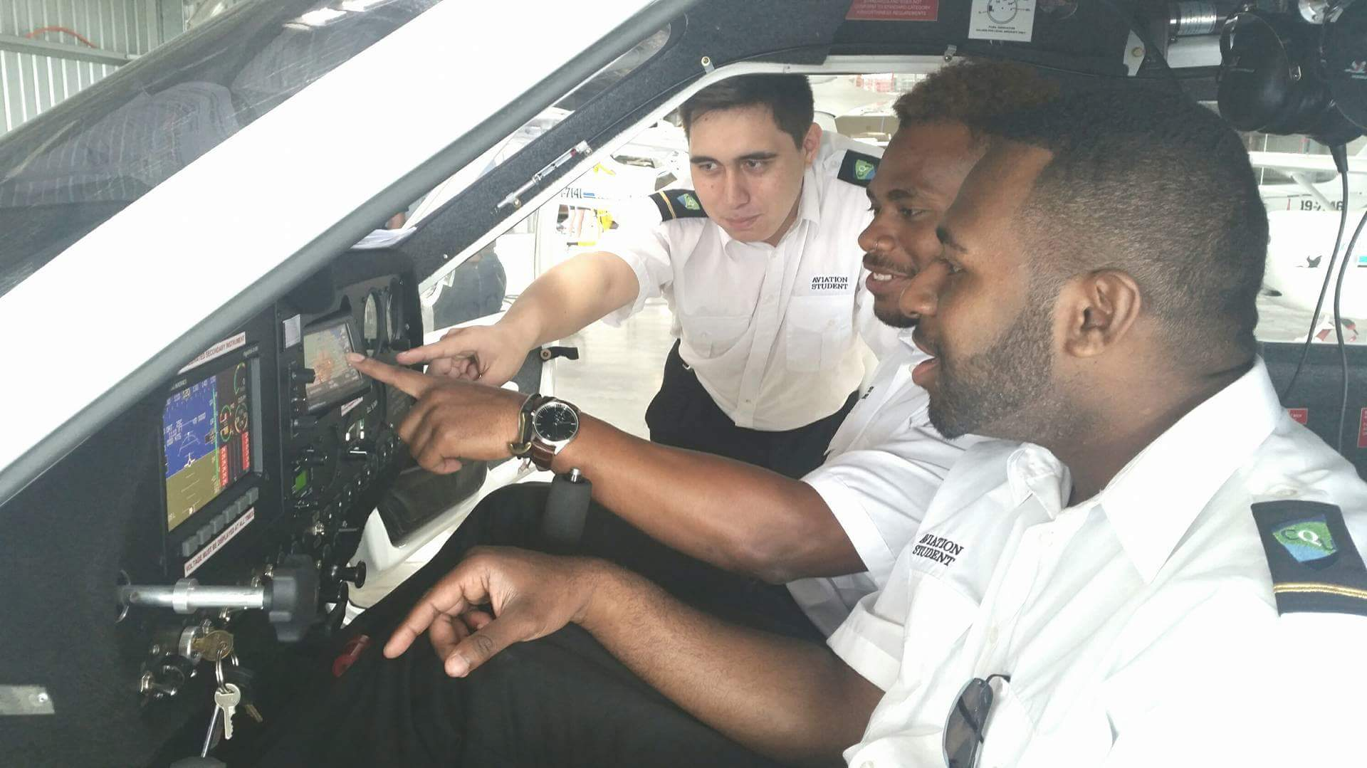 Student Mentor Benjamin Bishop shows aviation exchange students how to operate an aircraft.